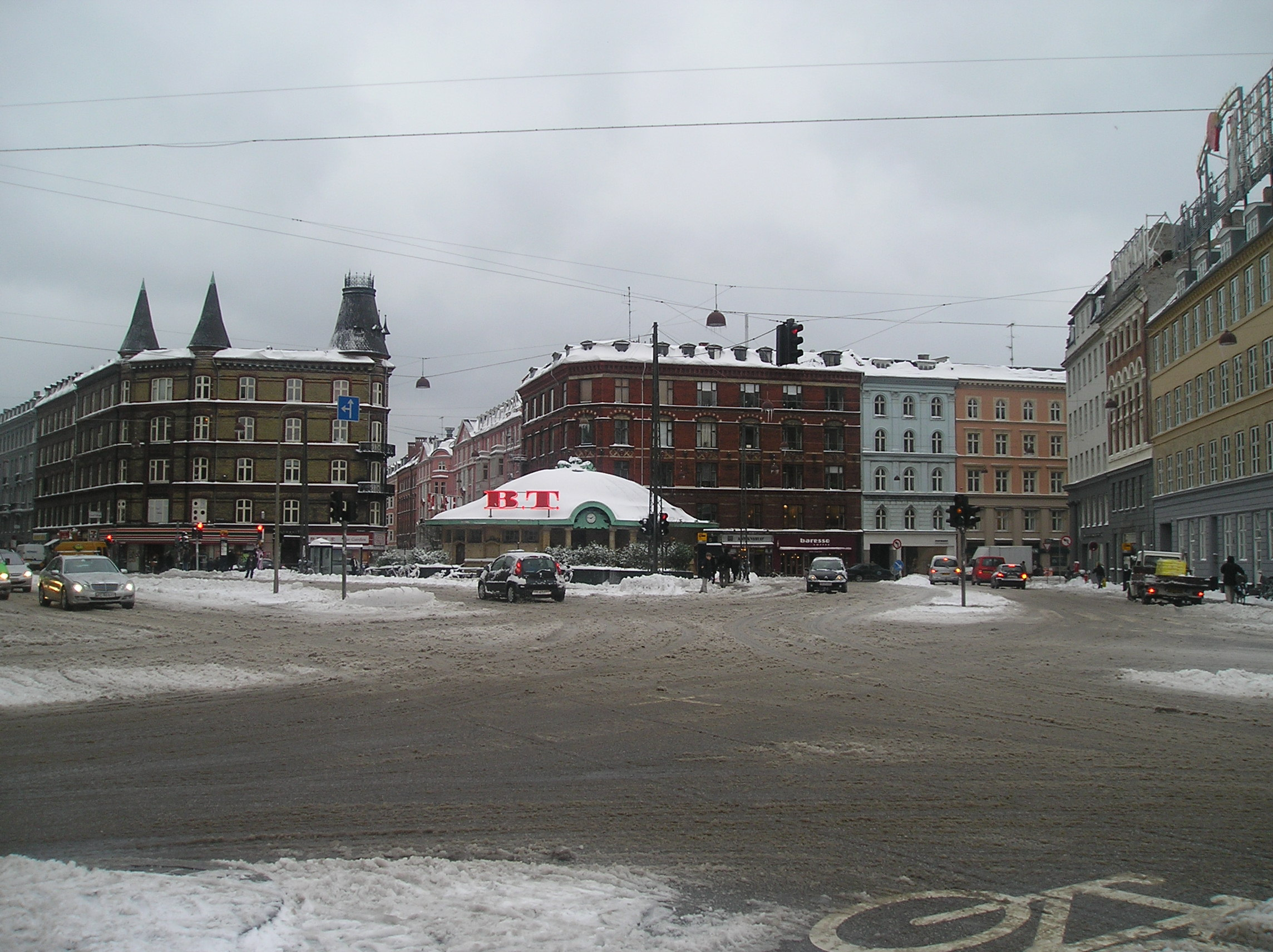 The square Trianglen in Copenhagen. Streets: Left of 7-Eleven is Nordre Frihavnsgade, continuing as Blegdamsvej to the right behind the photographer (the street with the silver-grey Mercedes taxi). Behind "Bien" (the small building with B.T. on the roof) is Odensegade. The street running along the buildings behind Bien is Østerbrogade. To the left of the photographer is Øster Allé, continuing right side around Bien to Østerbrogade.